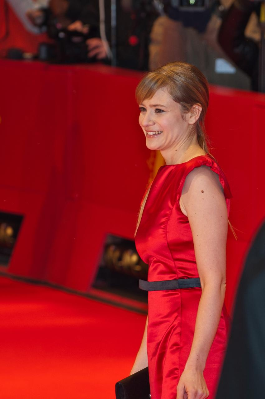 German actress Julia Jentsch, Opening of the 62nd Berlin International Film Festival